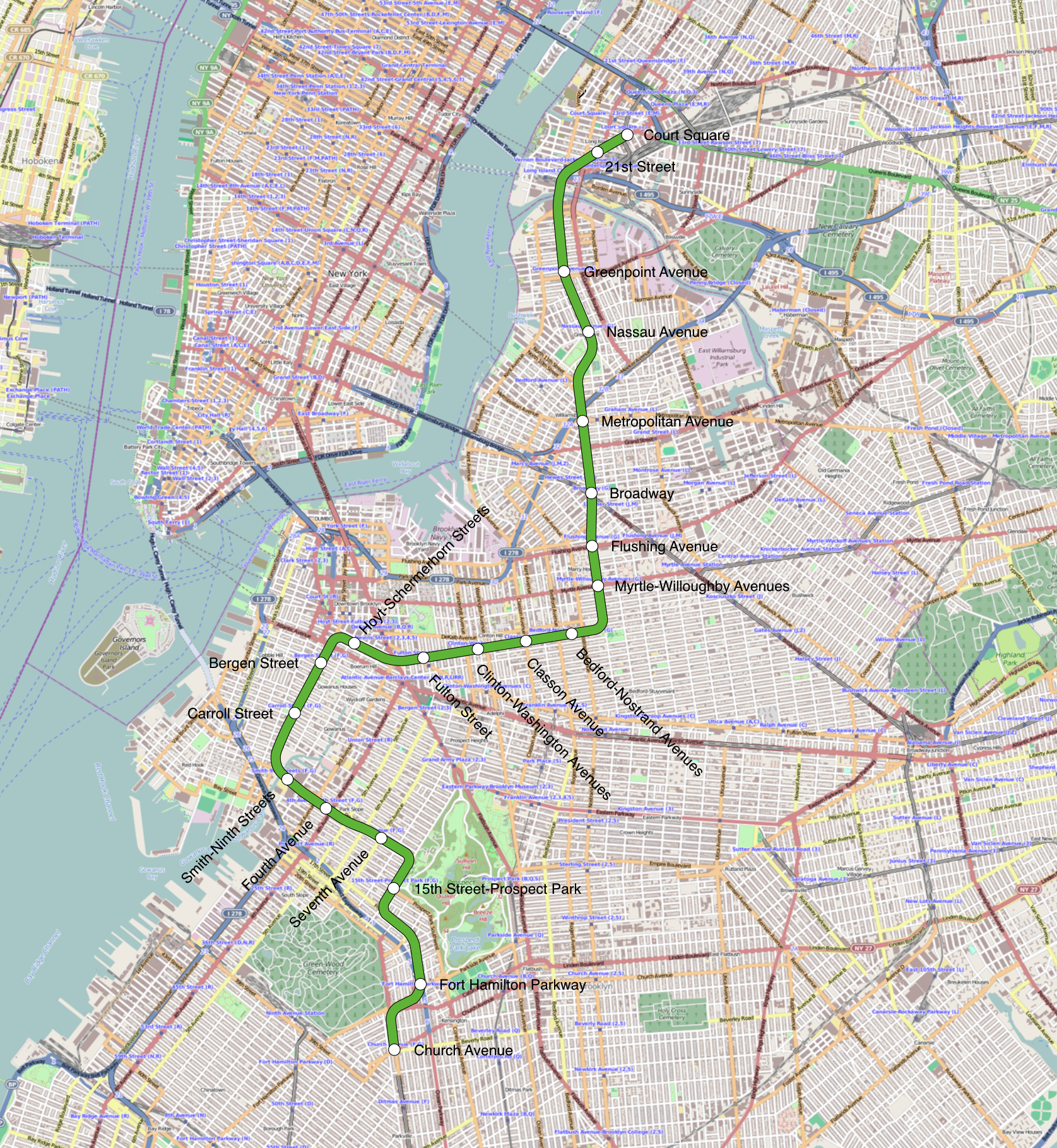 New York City Subway G service map